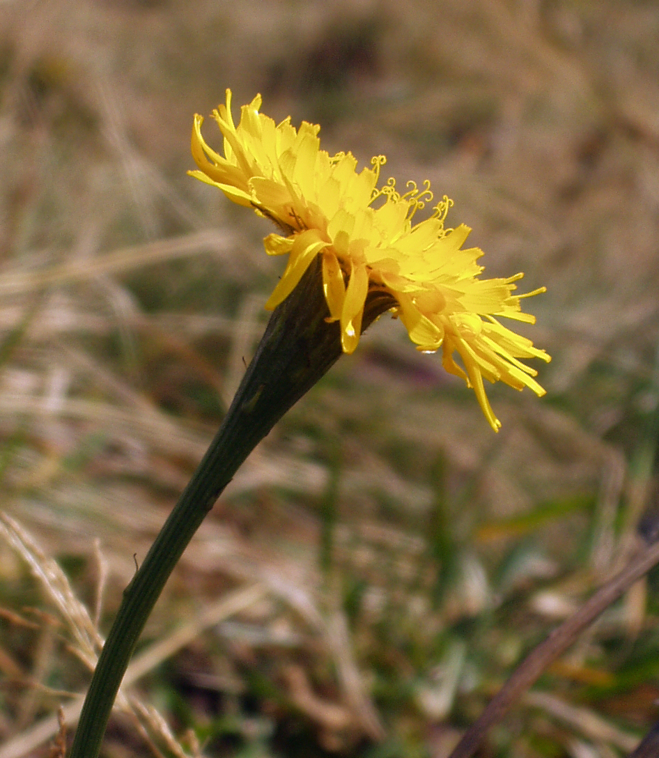 Scorzoneroides helvetica (syn. Leontodon helveticus Mérat, Leontodon pyrenaicus subsp. helveticus (Mérat) Finch & P.D.Sell) growing on Puy de Sancy, France. Taken by User:Stemonitis. Uploaded to enwiki under Creative Commons Attribution ShareAlike License v. 2.5